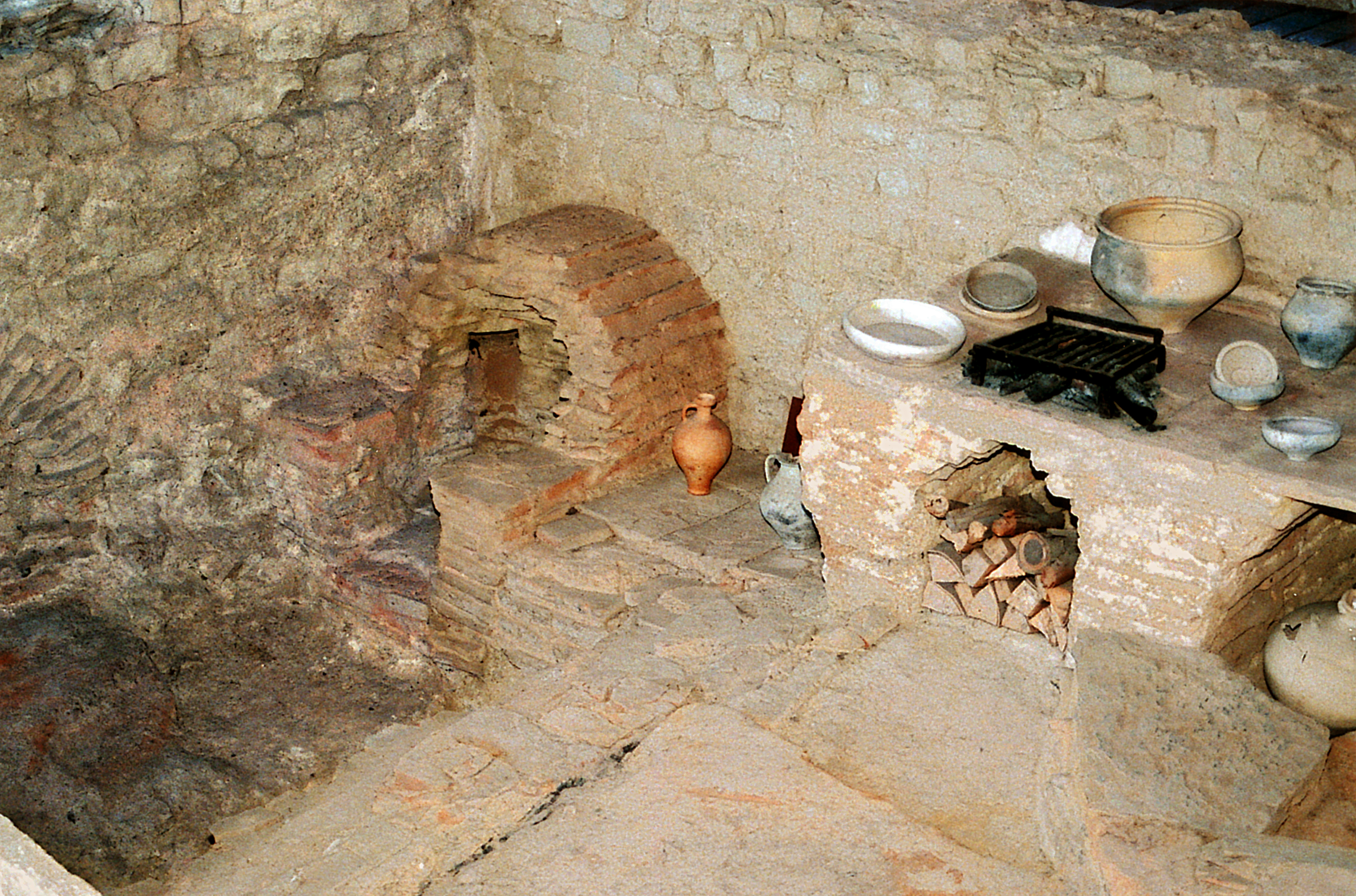 Kitchen with stove and oven of a Roman inn (Mansio) at the Roman villa of Bad Neuenahr-Ahrweiler, Germany.